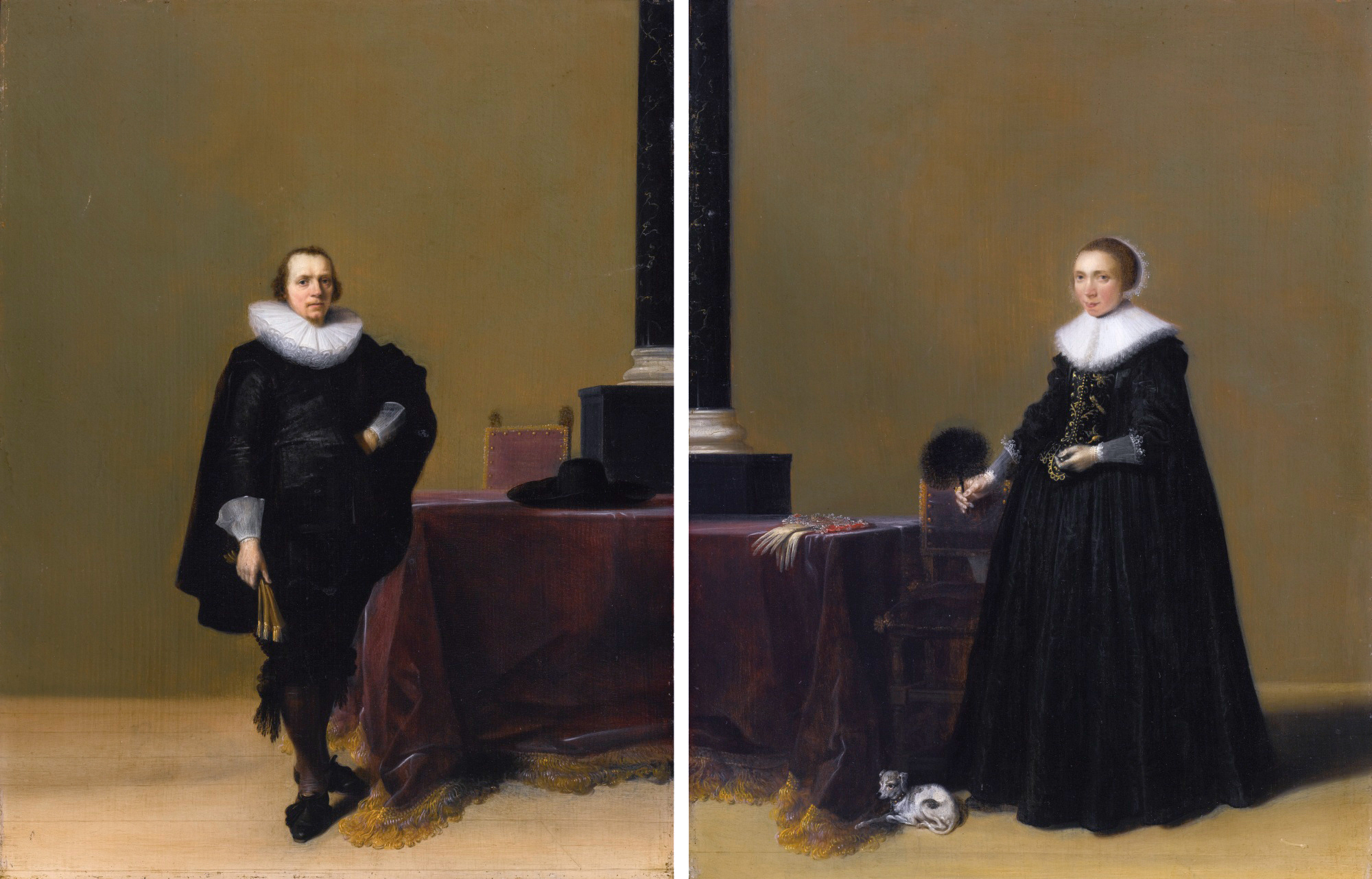 Jacob van der Merckt (1599-1653) and his wife Petronella Witsen (1602-1676) oil on oak 41.8 x 32 cm est'd 1628